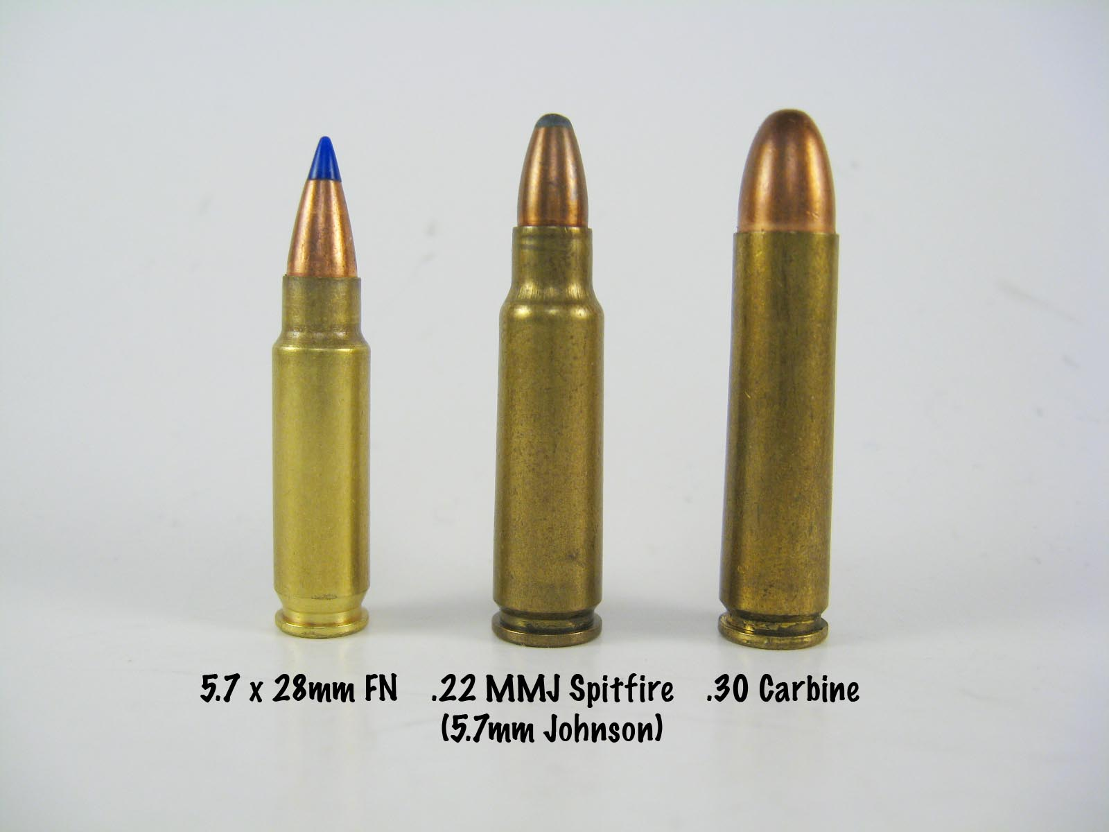 Comparison photo of .22 MMJ Spitfire (5.7mm Johnson), 5.7x28mm FN and .30 Carbine cartridges